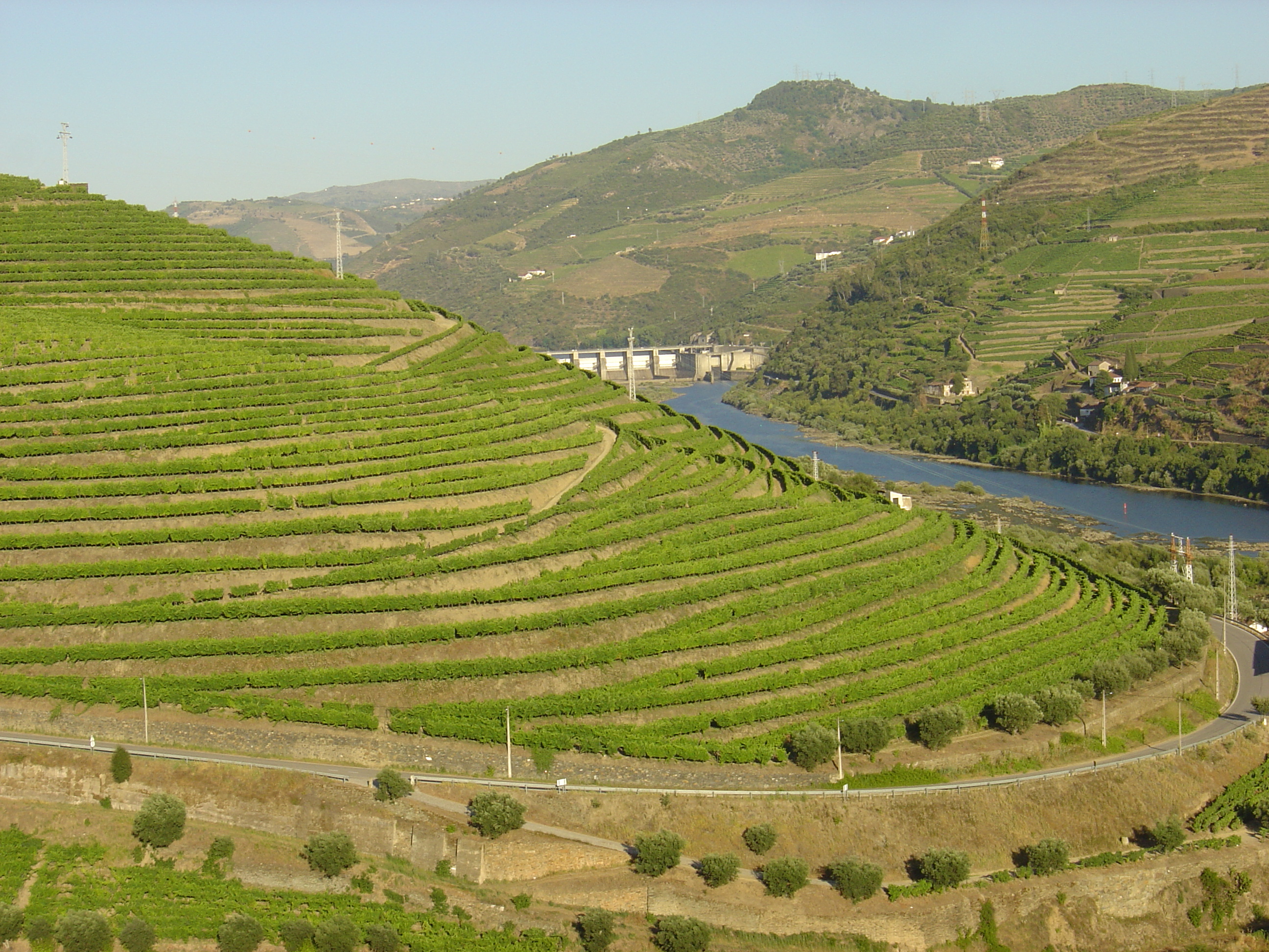 Peso da Régua, Portugal